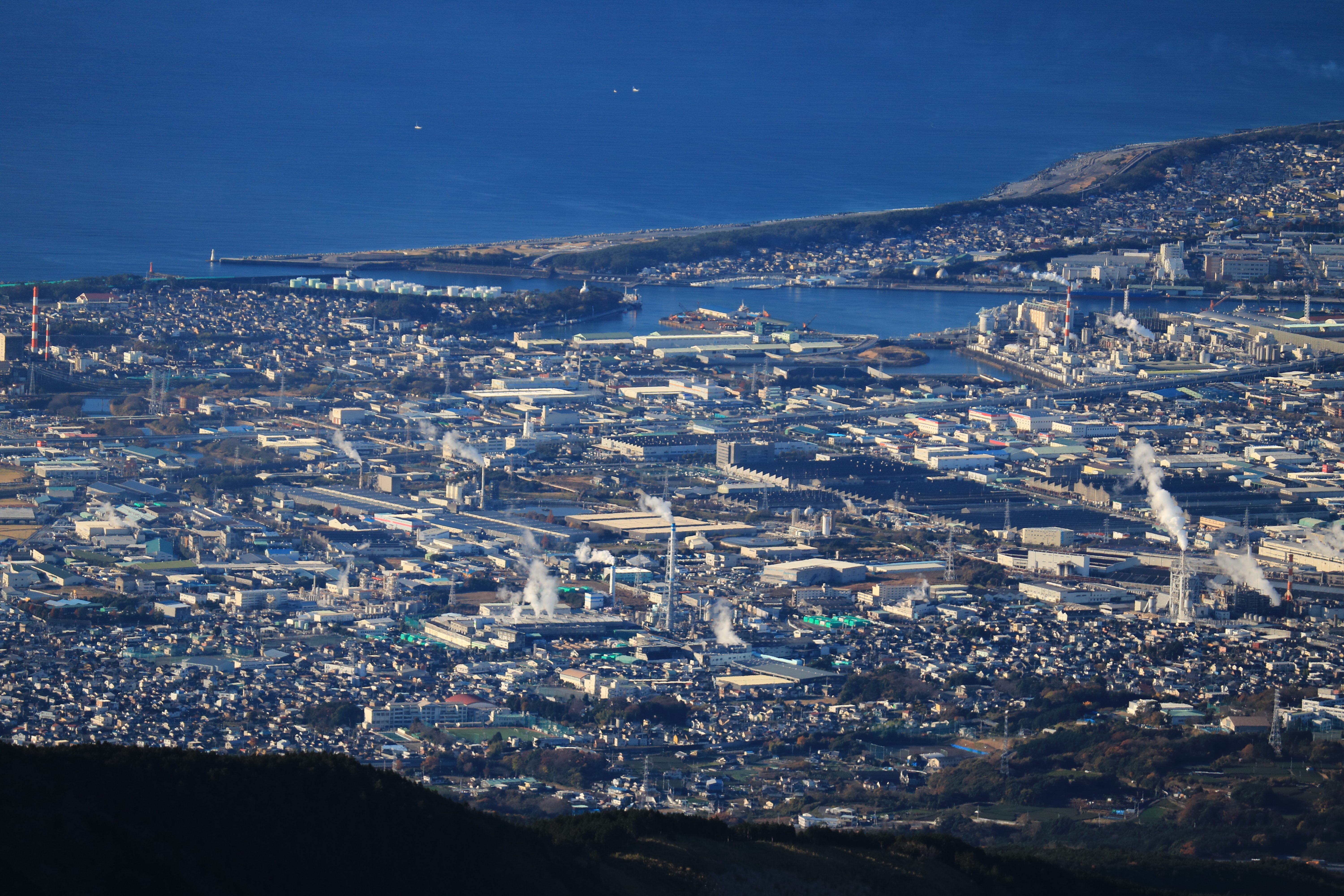 Port of Tagonoura and Senbonmatsubara seen from Ashitaka Mountains in Fuji city, Shizuoka prefecture, Japan.